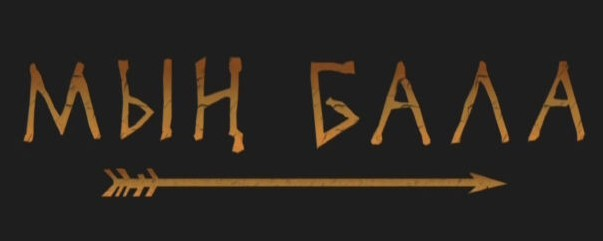 Myn Bala, Kazakhstani film, promotional image.